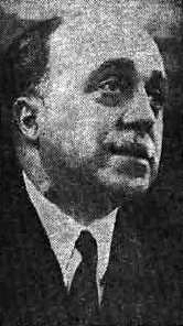 Mitja Ribičič (19 May 1919-) , Slovenian Communist official and Yugoslav politician. He was the only Slovenian prime minister of the Socialist Federal Republic of Yugoslavia (1969–1971). Between 1945 and 1957, he was at the top of the repressive system in Slovenia.